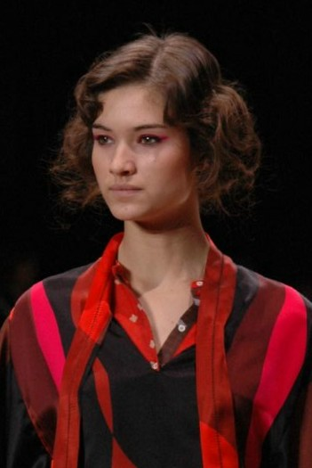 Camila Finn modeling at the Paul Smith Women Fall 2007 show (London Fashion Week)